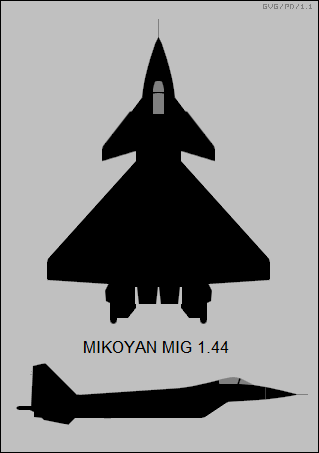 Plan-view silhouettes of the Mikoyan 1.44